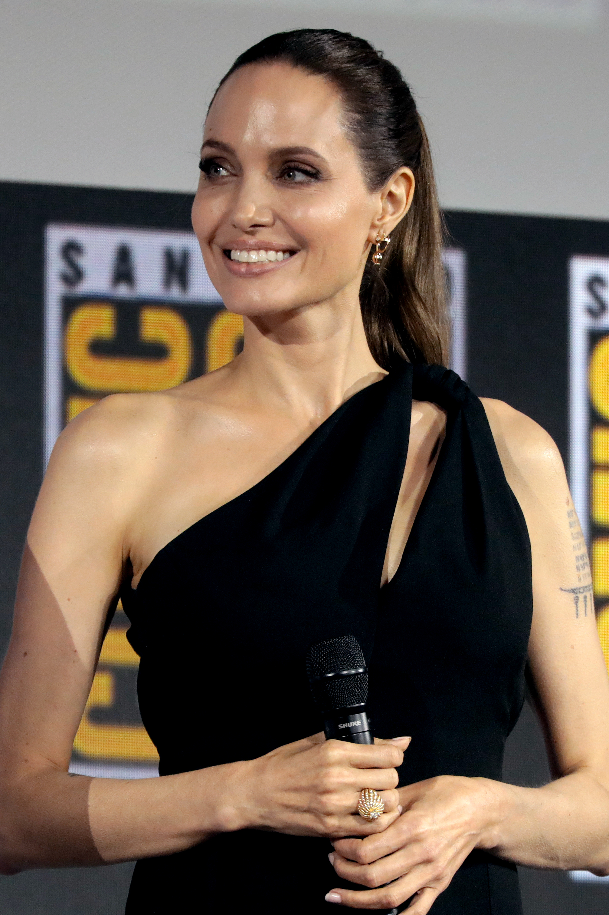 Angelina Jolie speaking at the 2019 San Diego Comic Con International, for "The Eternals", at the San Diego Convention Center in San Diego, California.